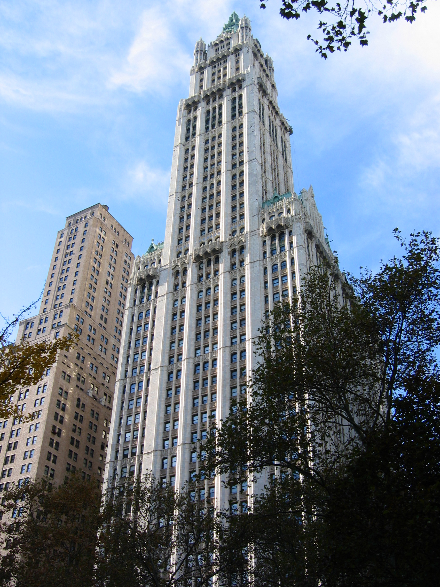 Woolworth Building (New York City) Photo taken by User:Aude on November 13, 2005.